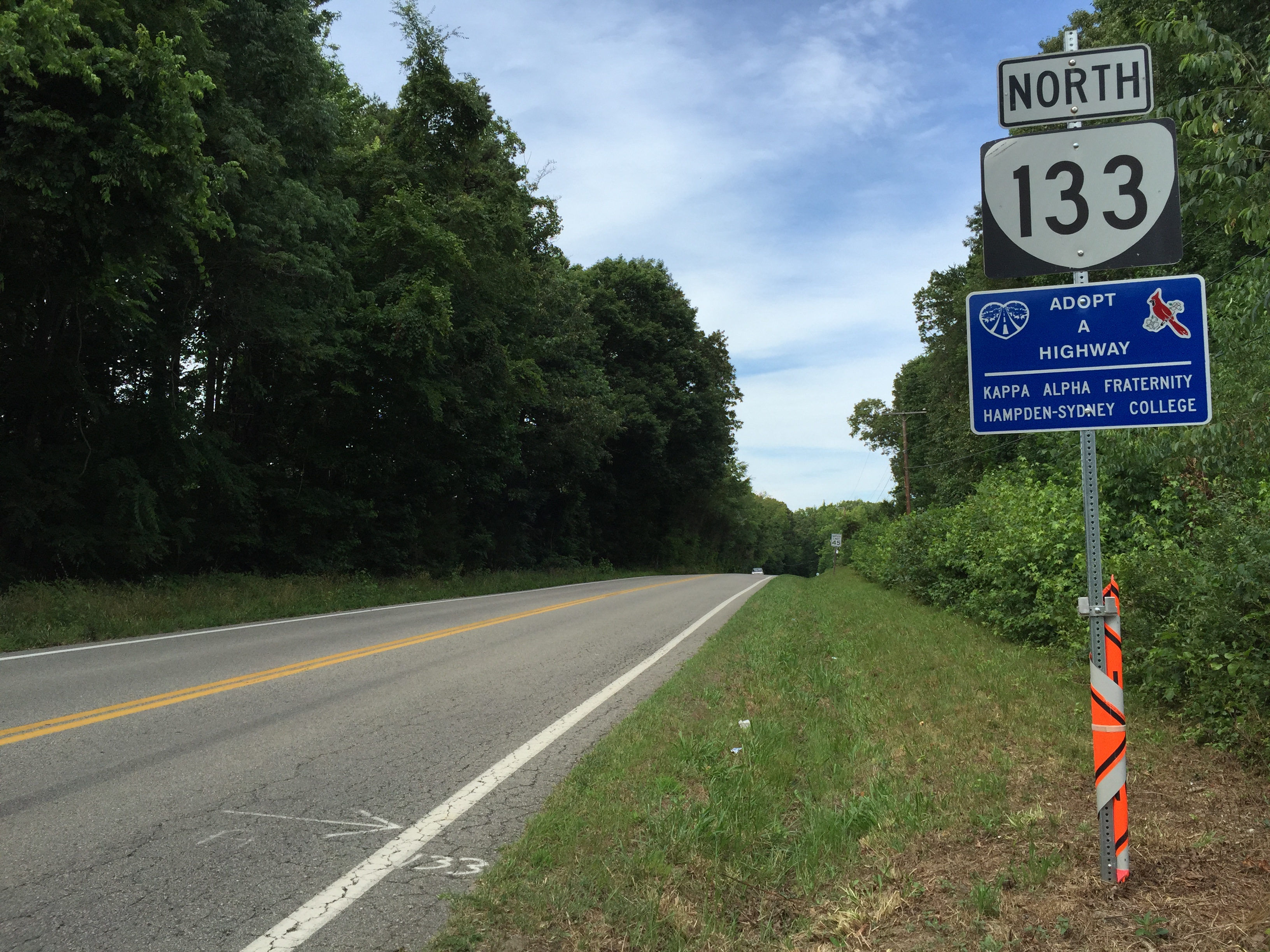 View north along Virginia State Route 133 (Kingsville Road) at College Road (Virginia State Secondary Route 692) in Hampden Sydney, Prince Edward County, Virginia